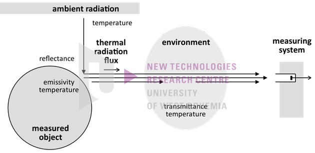 Scheme of the principles and factors influencing a thermographic measurement.